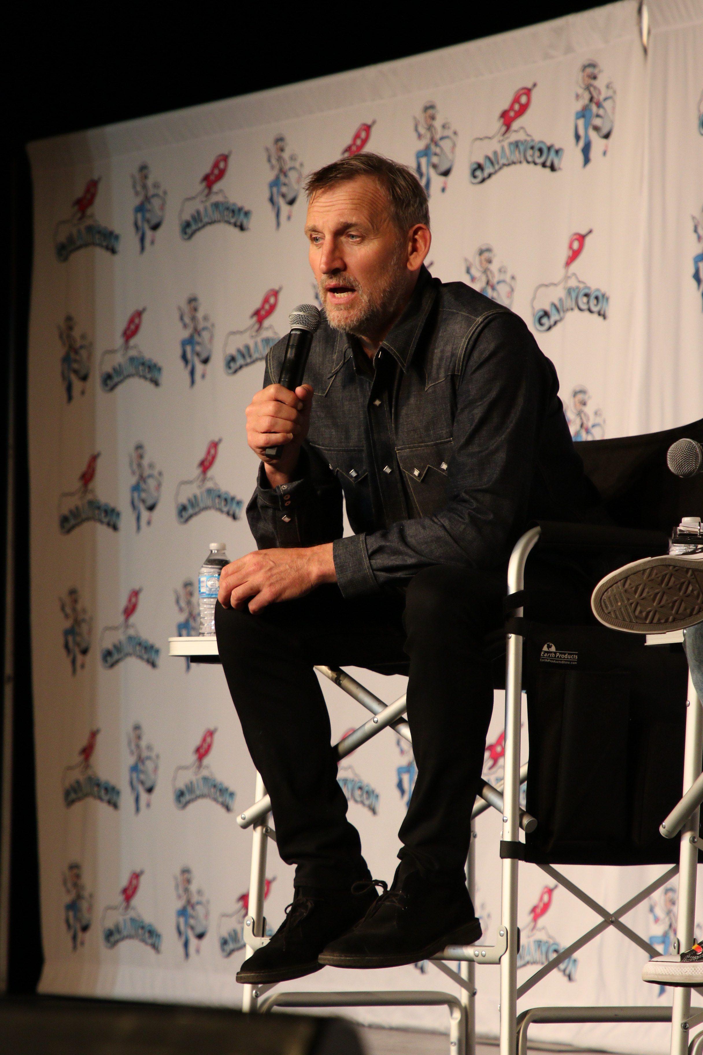 Christopher Eccleston Q&A at GalaxyCon Minneapolis on Nov 9, 2019